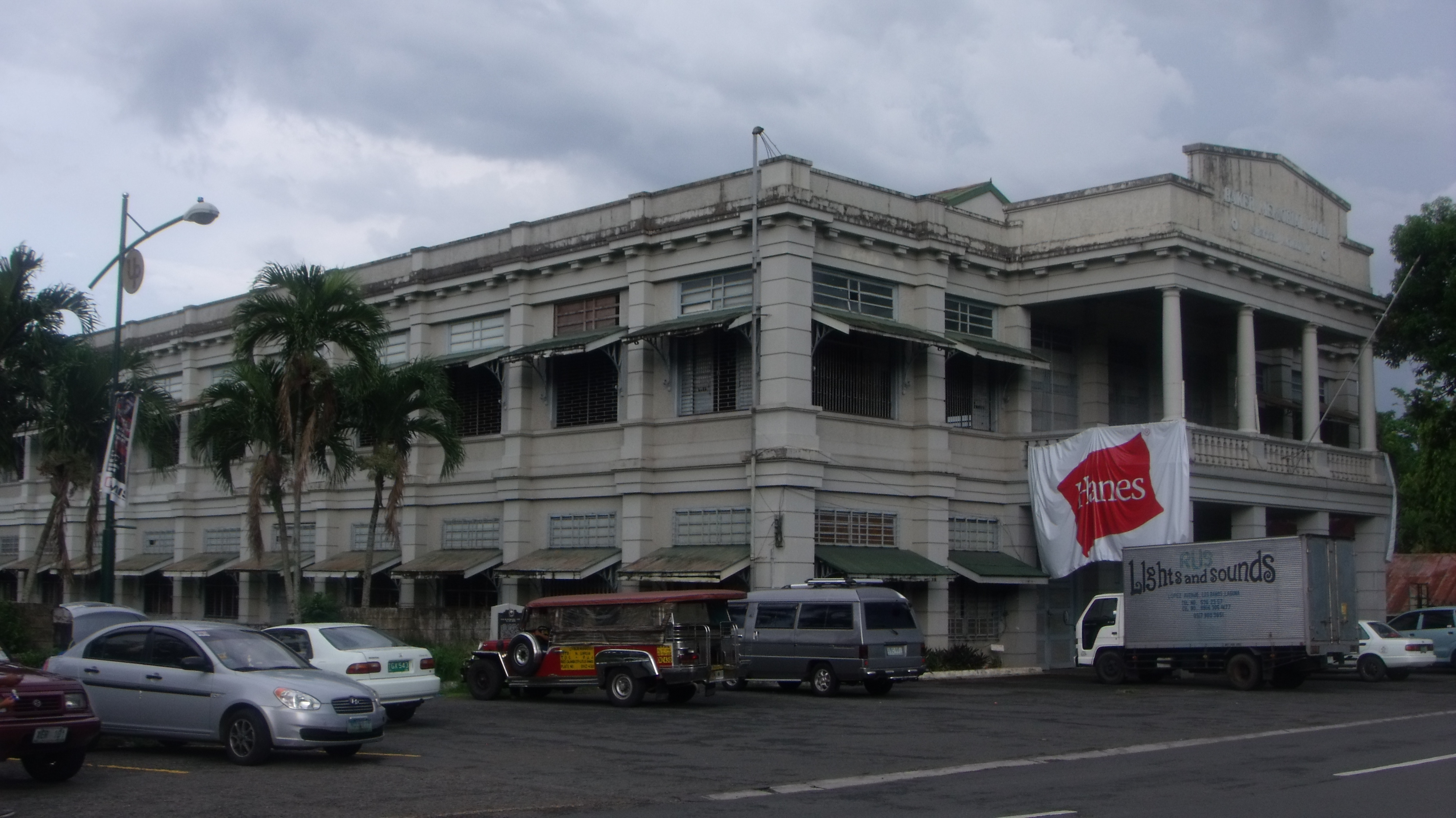 University of the Philippines College of Agriculture, Laguna